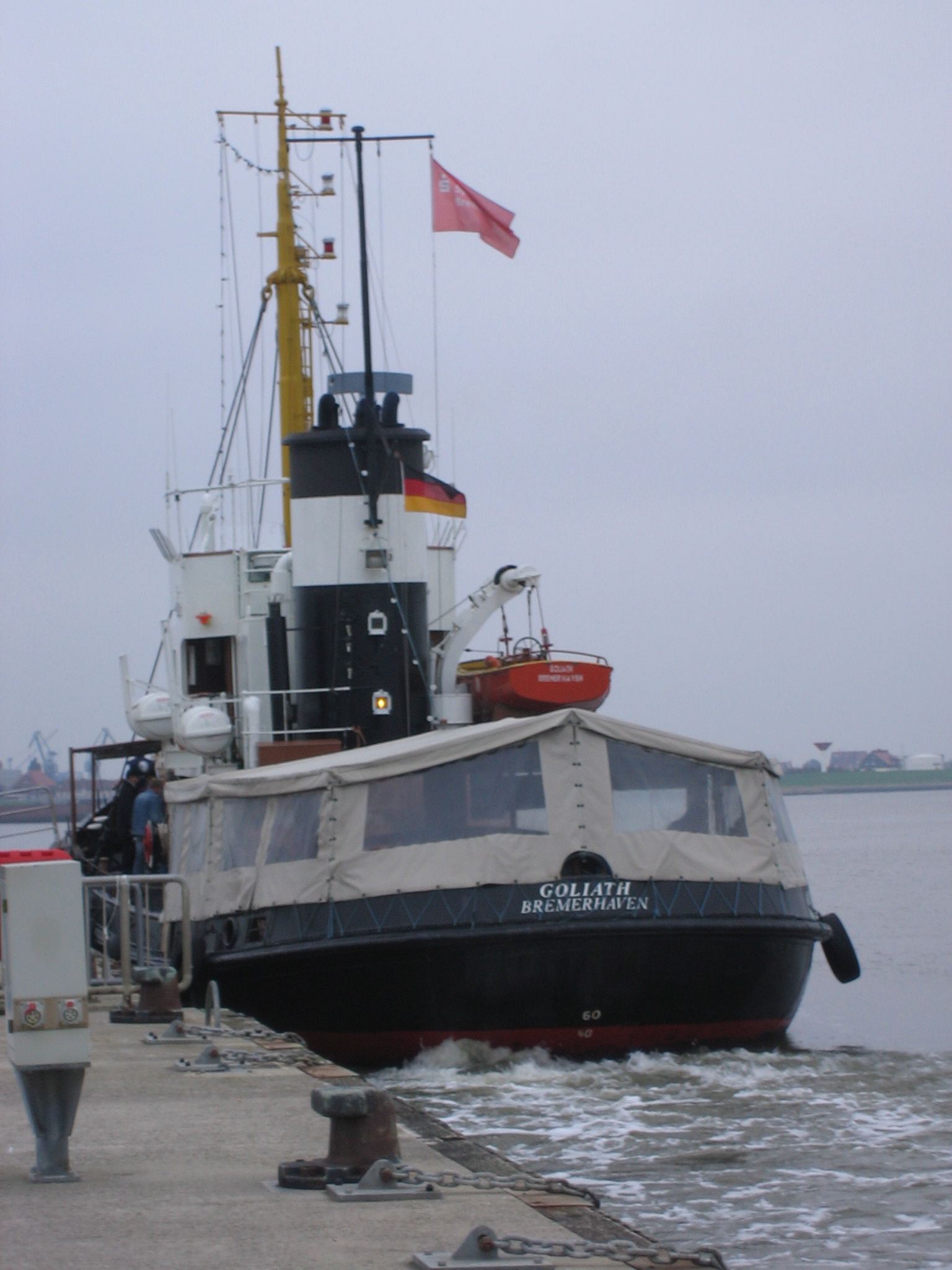 This is a self-taken picture of the tug boat Goliath on the travel to lighthouse Roter Sand near the German coast, near the town of Bremerhaven.